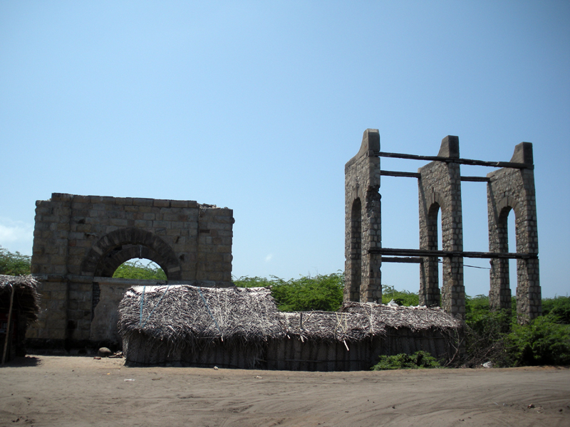 Remnants of the Dhanushkodi Railway Station.